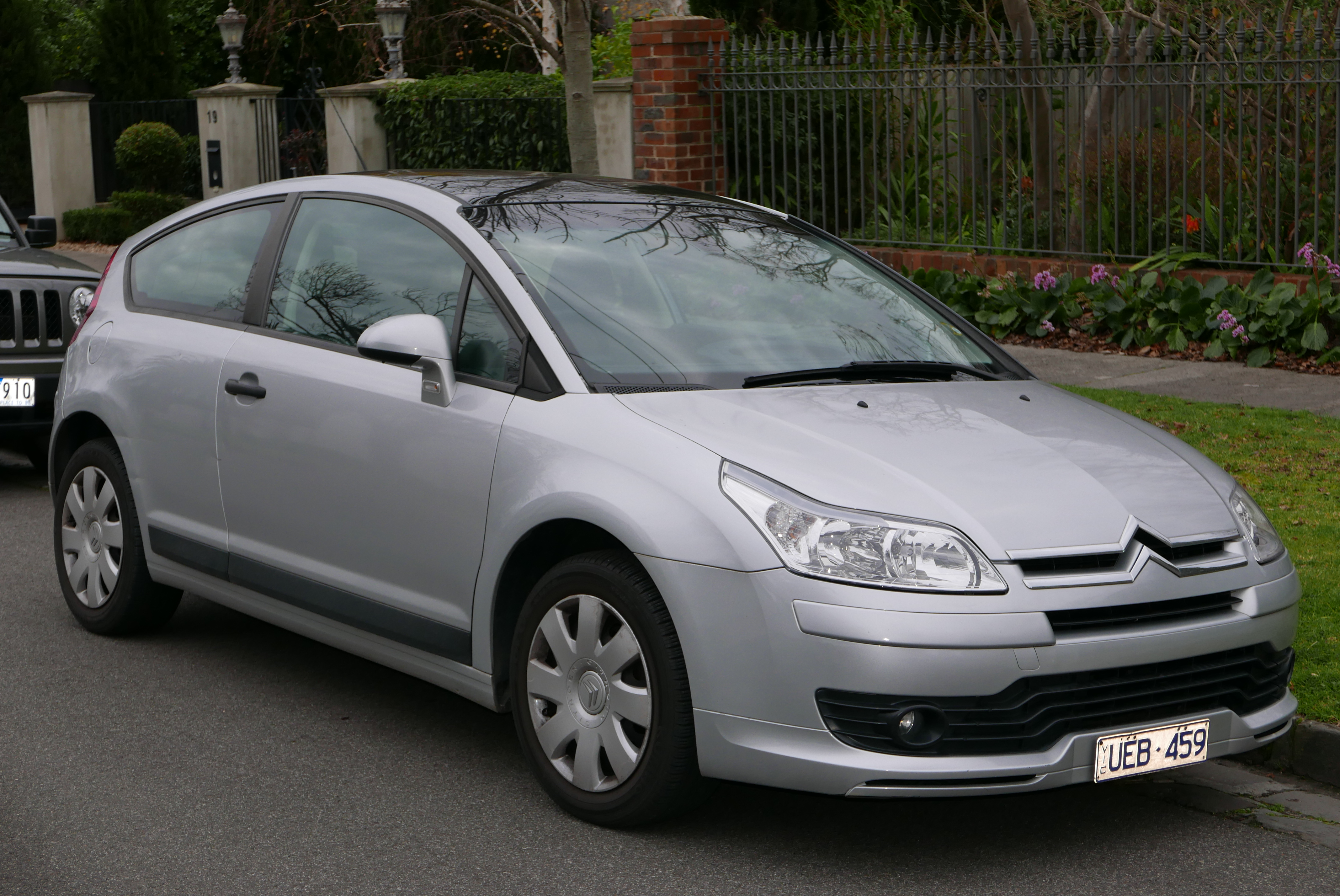 2005 Citroën C4 VTR coupe. Photographed in Kew, Victoria, Australia. Vehicle registration enquiry results Jurisdiction Victoria Registration UEB459 Chassis code VF7LANFUC74278688 Engine code FX5G2651490 Compliance date 2005-09 Year of manufacture 2005